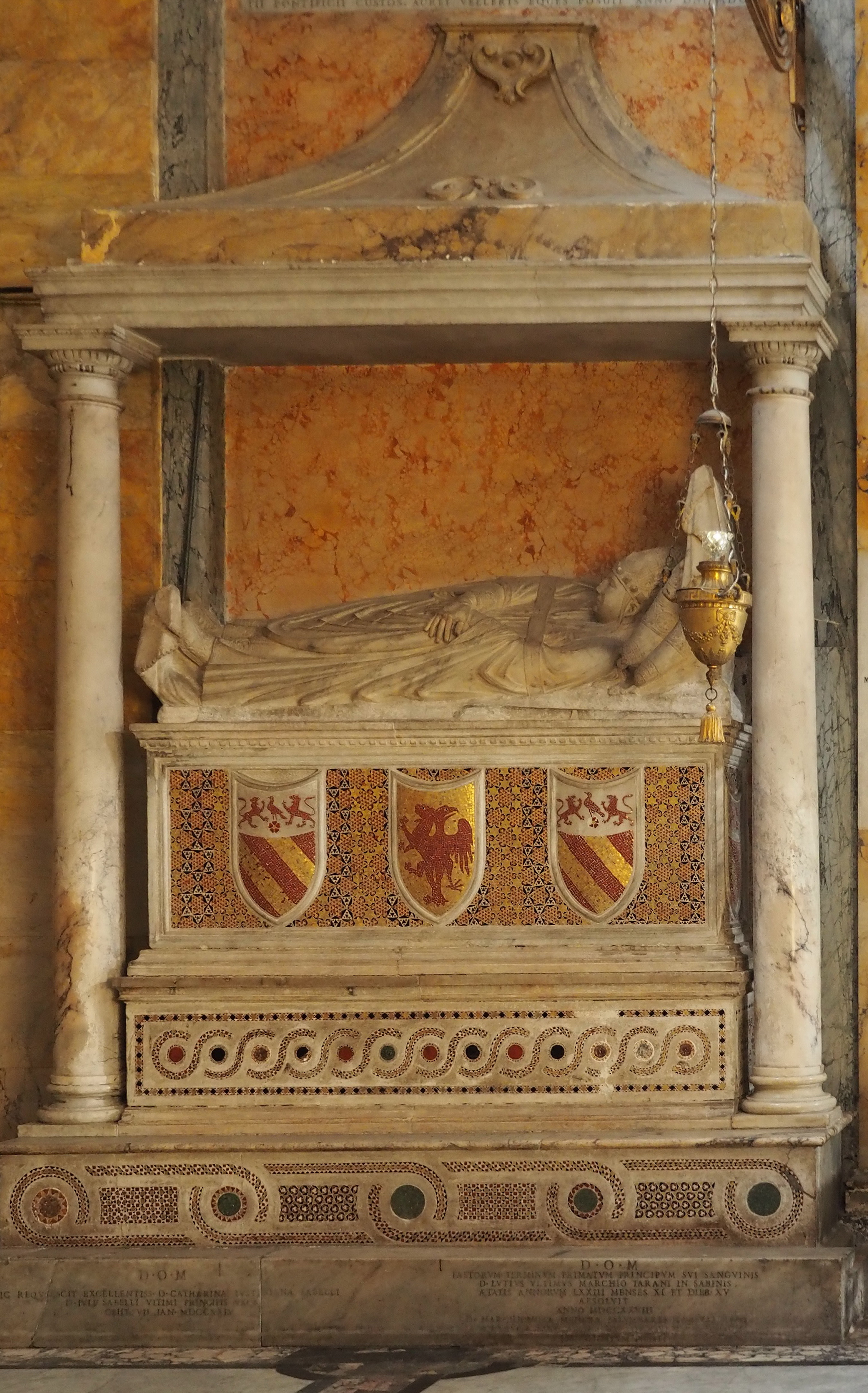 Santa Maria in Aracoeli (Rome); Funeral monument for Giovanna Aldobrandeschi with statue of Pope Honorius IV.